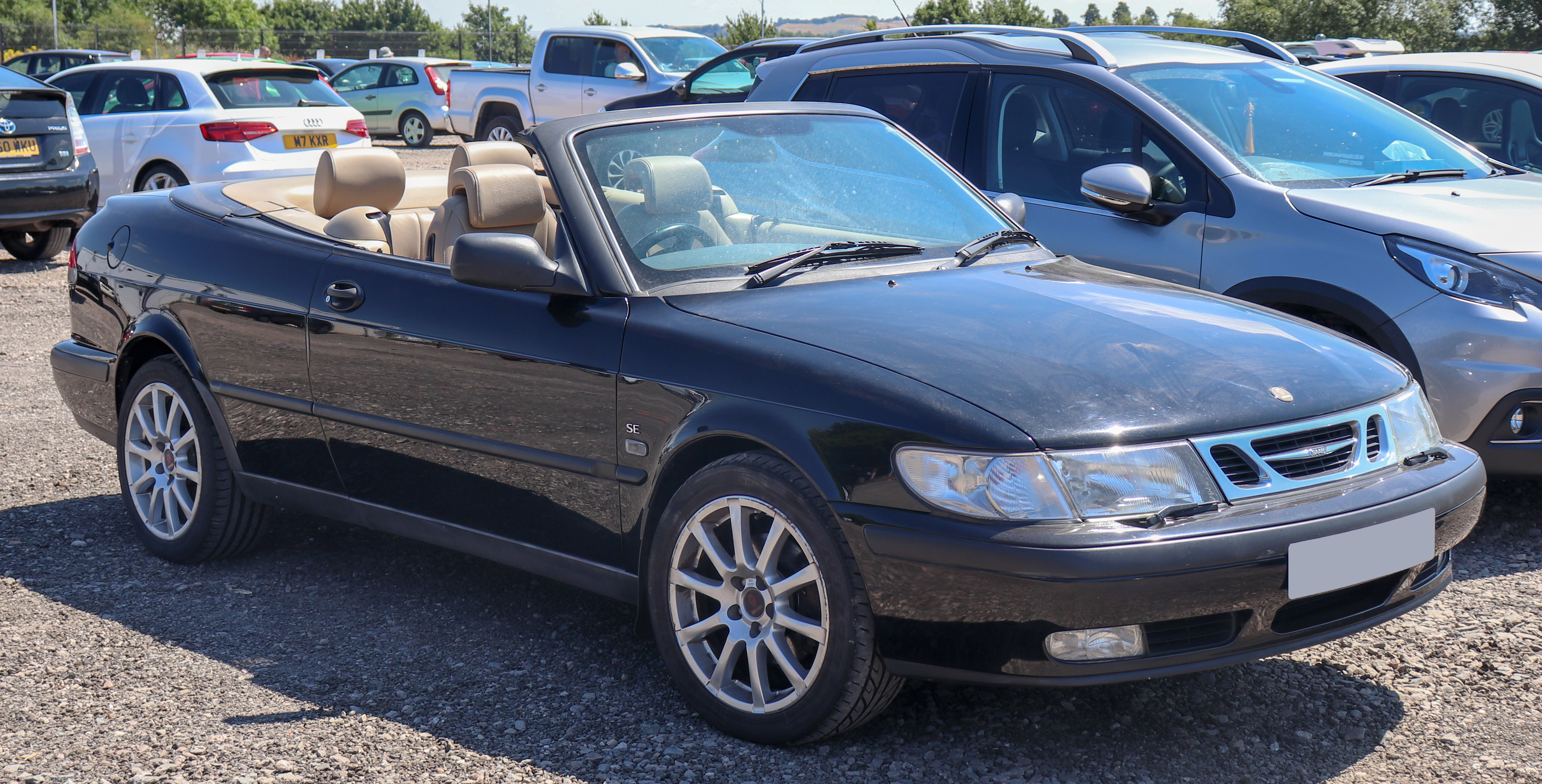 1998 Saab 9-3 SE Turbo 2.0 Front Taken at the British Motor Museum Old Ford Rally 2018, Gaydon